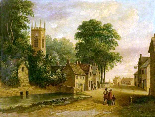 An early nineteenth-century scene showing the village pond, plague cottages, church tower, Talbot Inn and cottages, rectory gateposts and four groups of figures. Oil on canvas, 46.5 x 59.5 cm. Collection: Eyam Museum